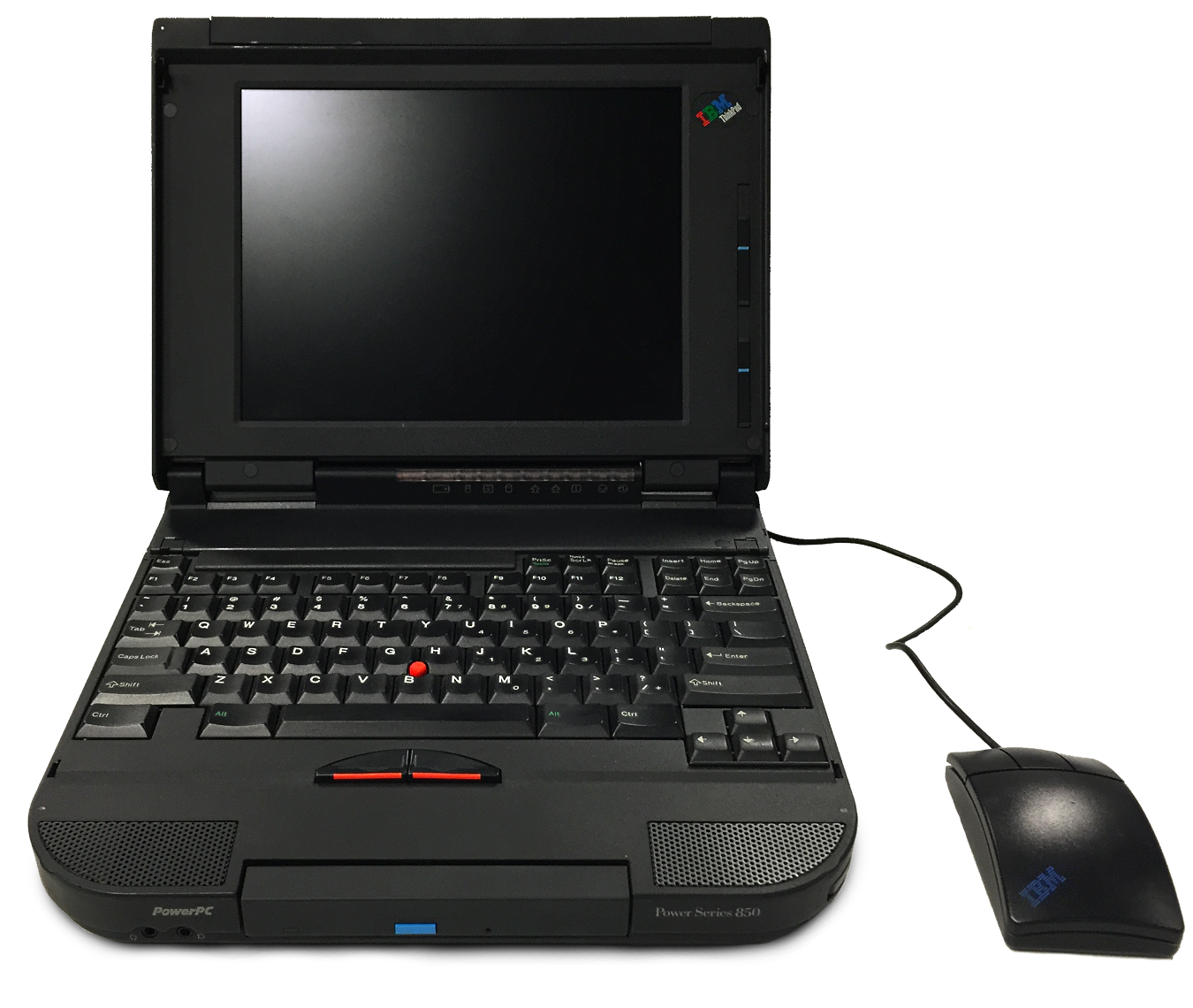 The ThinkPad 850 accompanied with its paired mouse. This particular model lacks the webcam option.